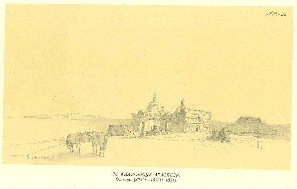 Painting of Taras Shevchenko